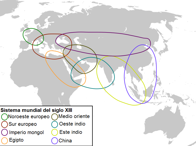 Thirteenth century globalization according to the world-system theory; based on the Janet Abu-Lughod Before European Hegemony: The World System A.D. 1250–1350 and the File:WorldMap.svg